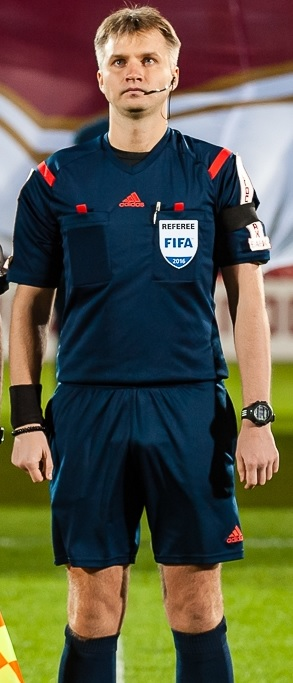 Sergey Lapochkin before the Russian Football Premier League game between FC Rostov and FC Spartak Moscow on 2 April 2016.